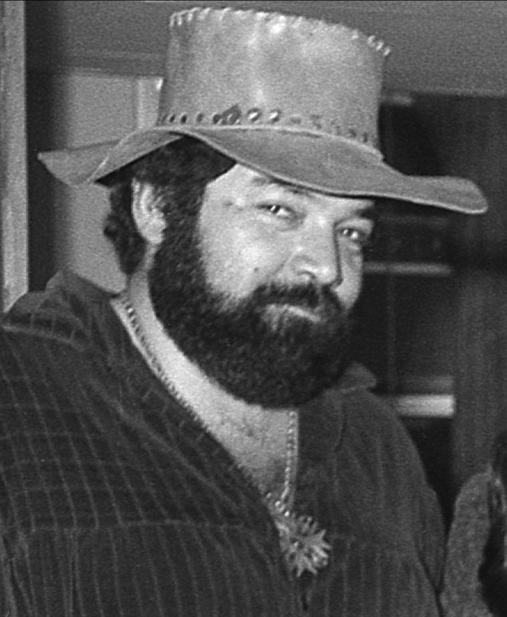 Paul L. Smith (June 24, 1936 – April 25, 2012) was an American character actor. Burly, bearded and imposing, he appeared in films and occasionally on television since the 1970s, generally playing "heavies" and bad guys. His most notable role include Hamidou, the vicious prison warden in Midnight Express (1978).